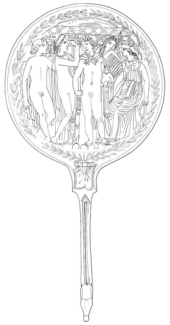 Etruscan Bronze Mirror. 300 BCE. Crowning of Hercle